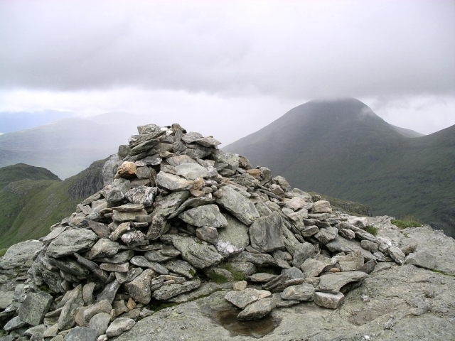 Cruach Ardrain : Munro No 87. 1046m summit cairn. The view beyond is to the North East and Ben More.